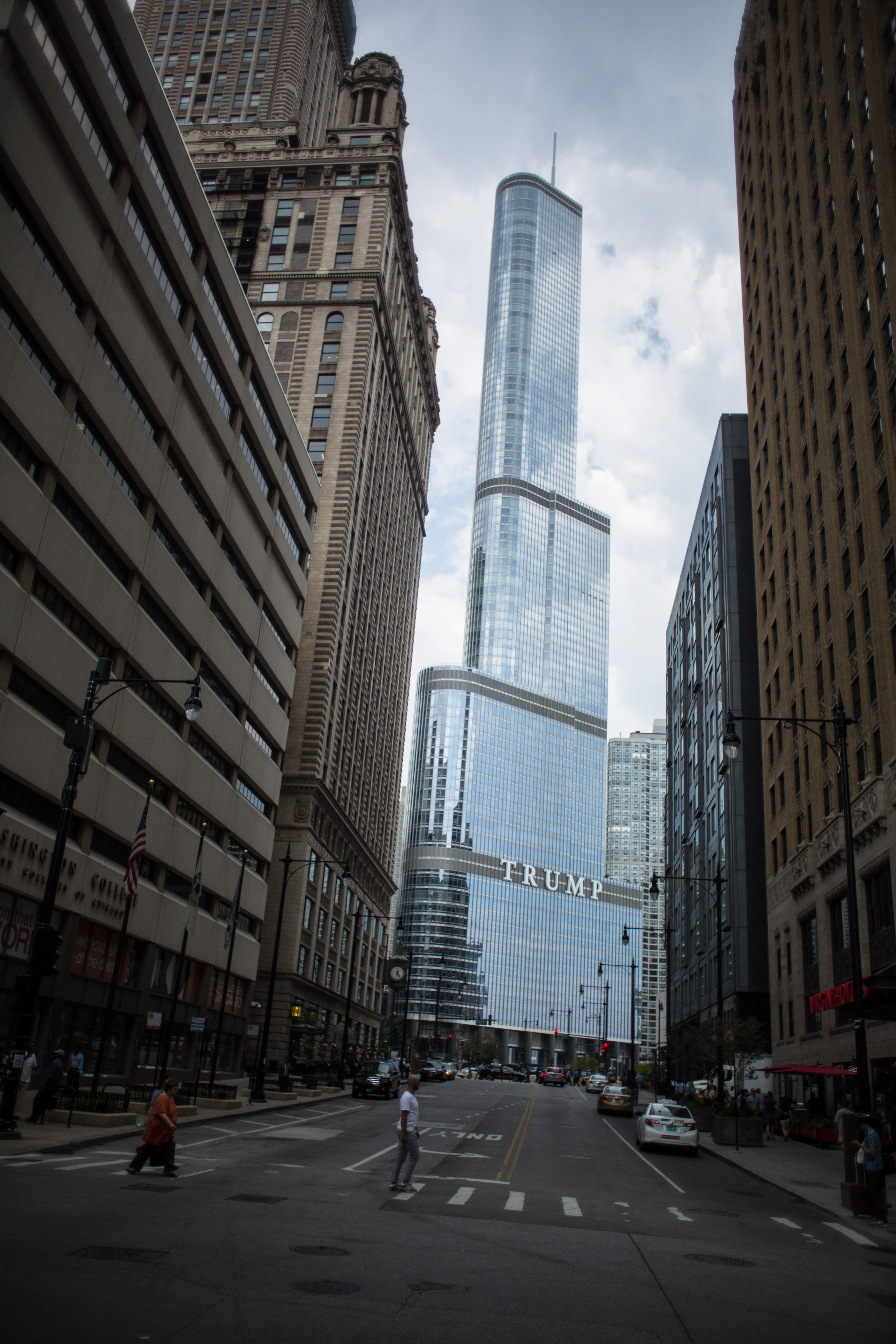 Trump Tower Chicago 2015-102